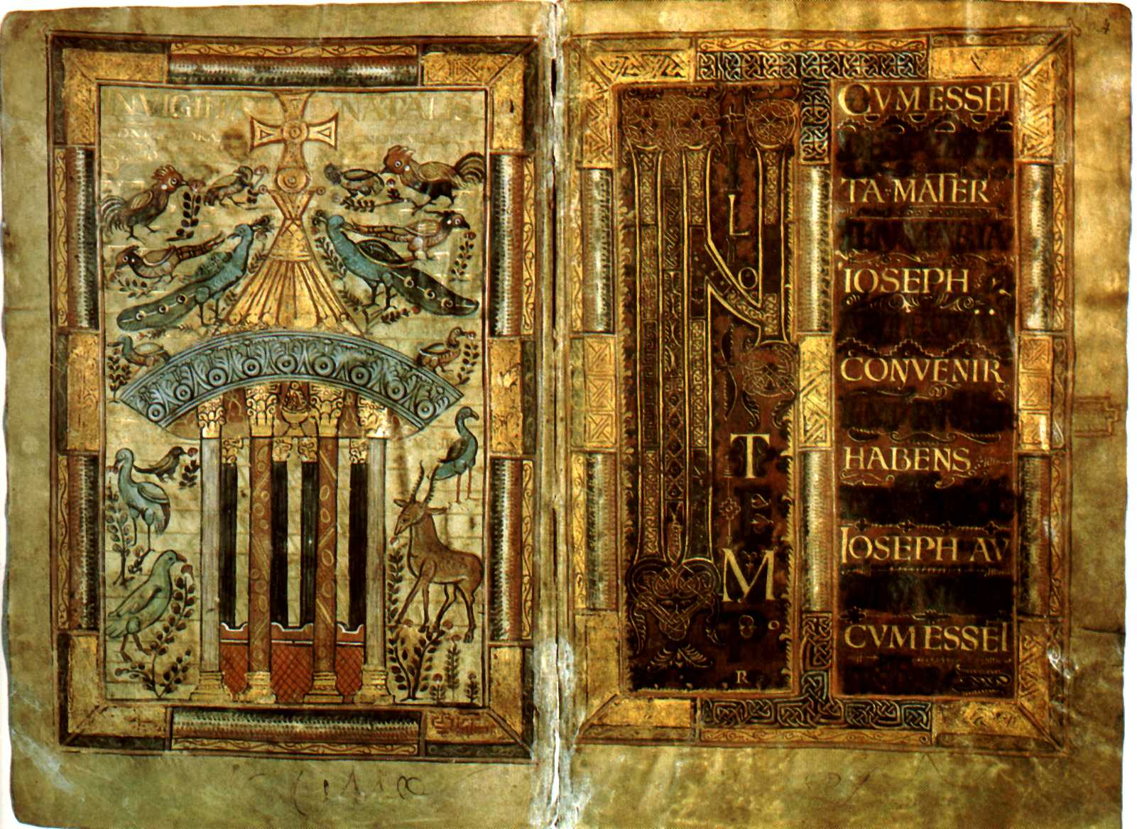 Two folios from the Godescalc Evangelistary. Category:Illuminated manuscript images